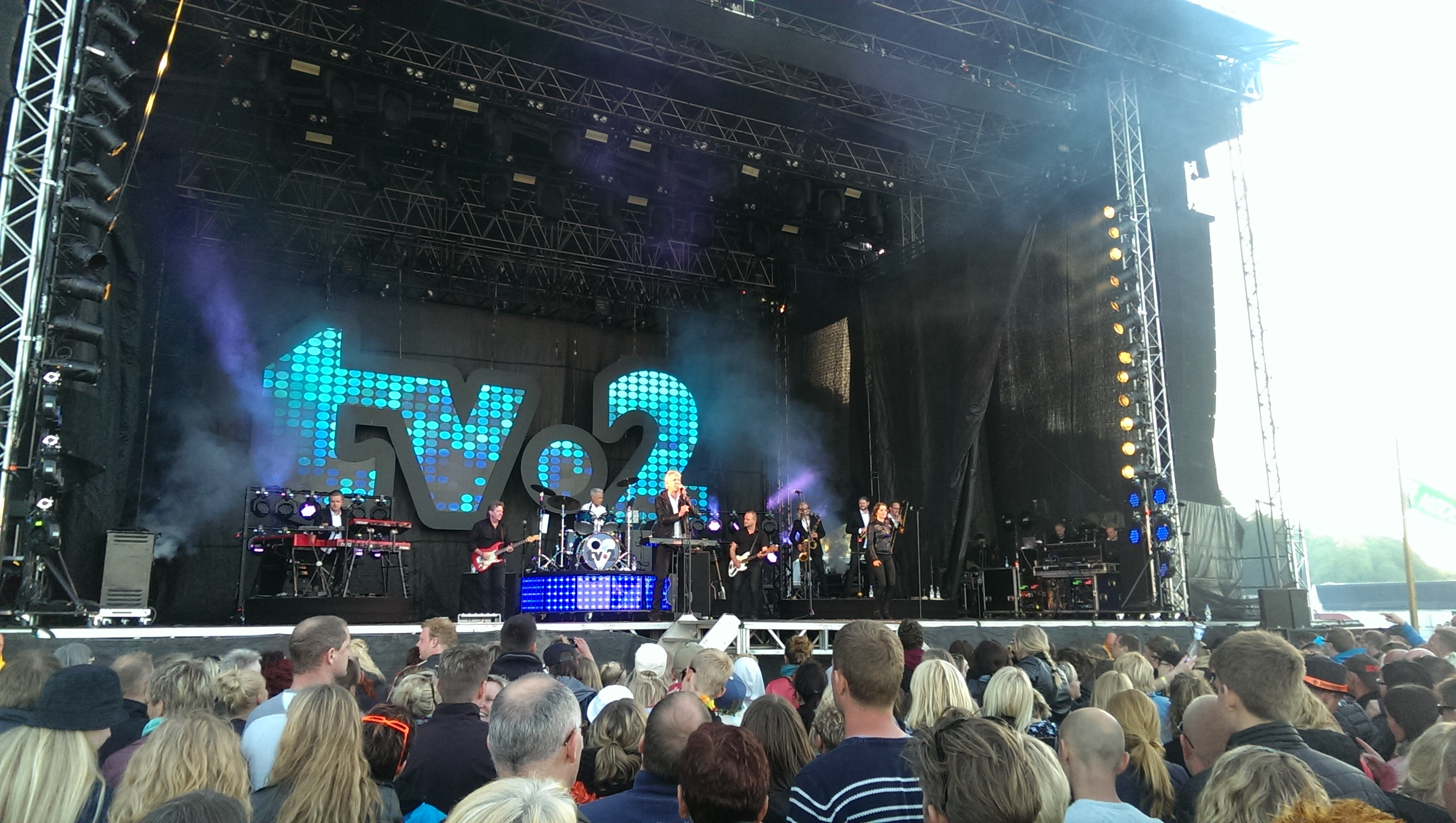 tv-2 danish pop/rock band in 2015 in the city Skive